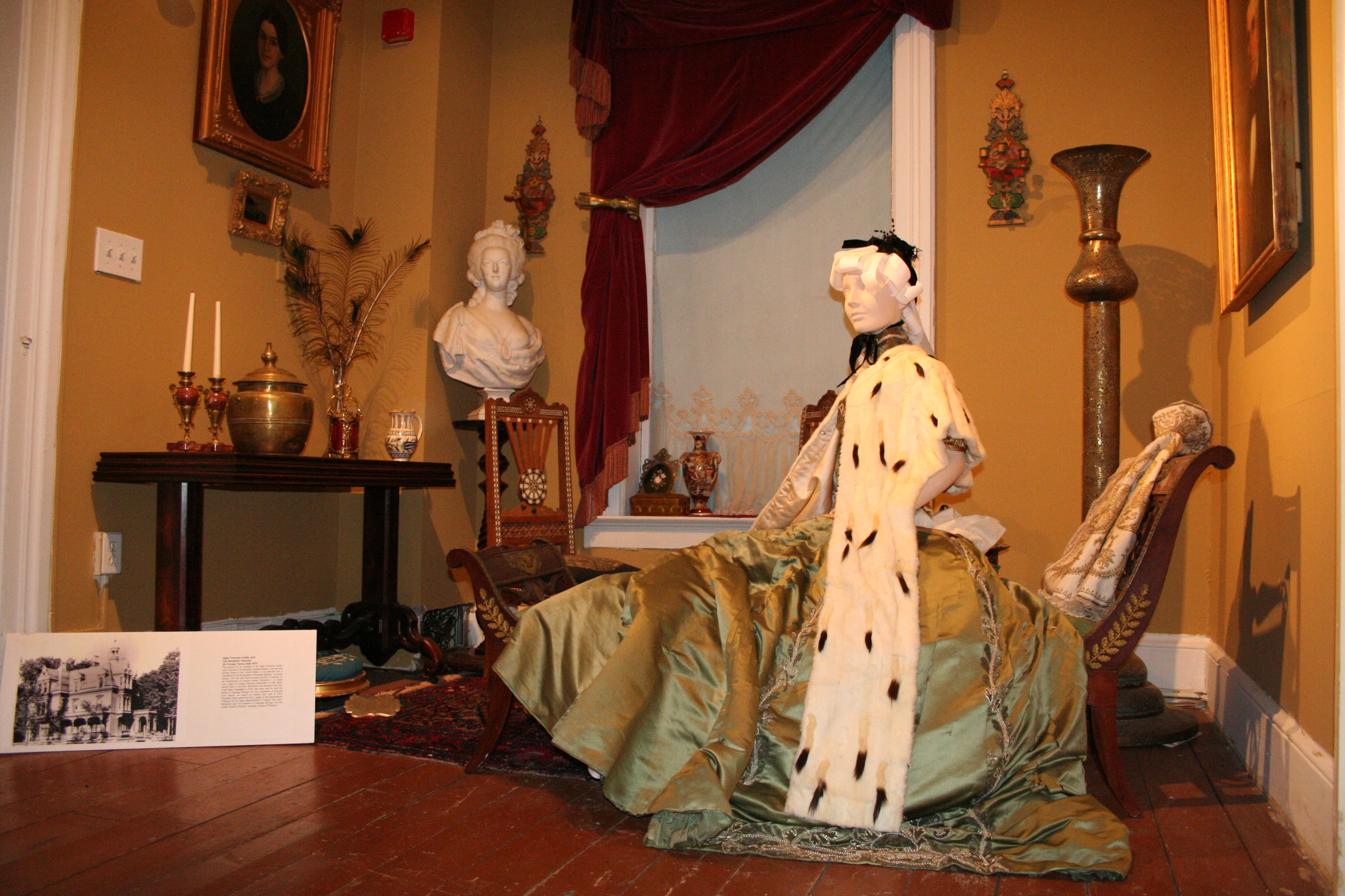 One of the rooms in the Walworth family collection in the Saratoga Springs History Museum, Congress Park, Saratoga Springs, NY 12866